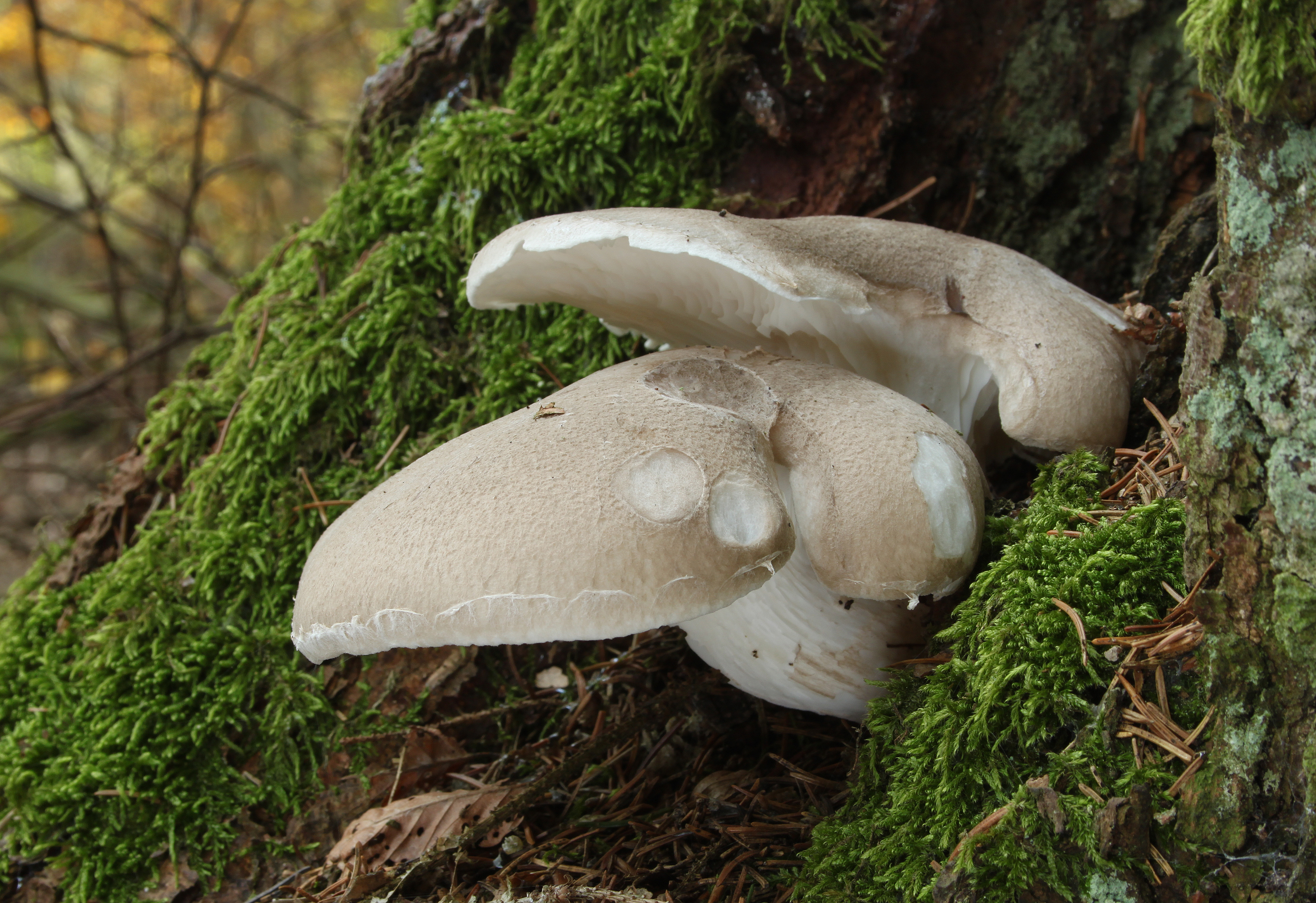 Pleurotus dryinus, Family: Pleurotaceae, Location: Germany, Ulm, Eggingen. Thanks to R. Seibert (AMU, Mycological Working Group Ulm) fort the location